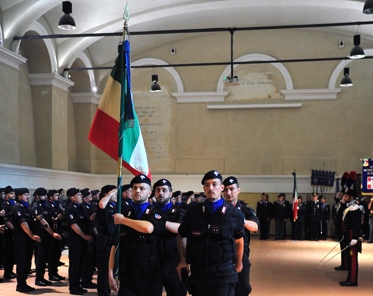 War Flag of 1st Carabinieri Piemonte Regiment